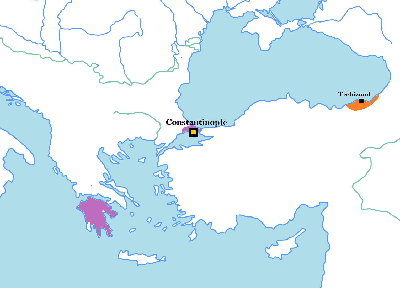 Map of the Byzantine Empire in 1435, with the other Byzantine realm of Trebizond in orange.